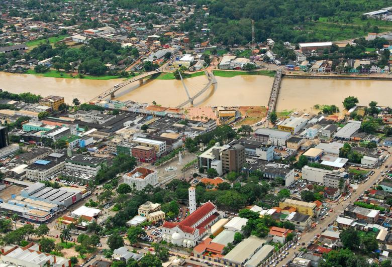 Bairro Centro